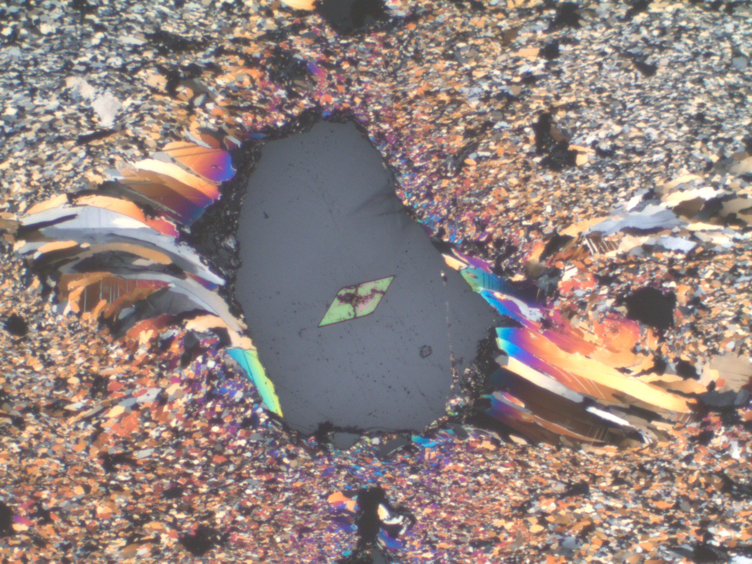 Picture of a badly made thin section showing 1st order through to 2nd order colours, the uneven colouring is a product poor sectioning. Section approx 30-50um.